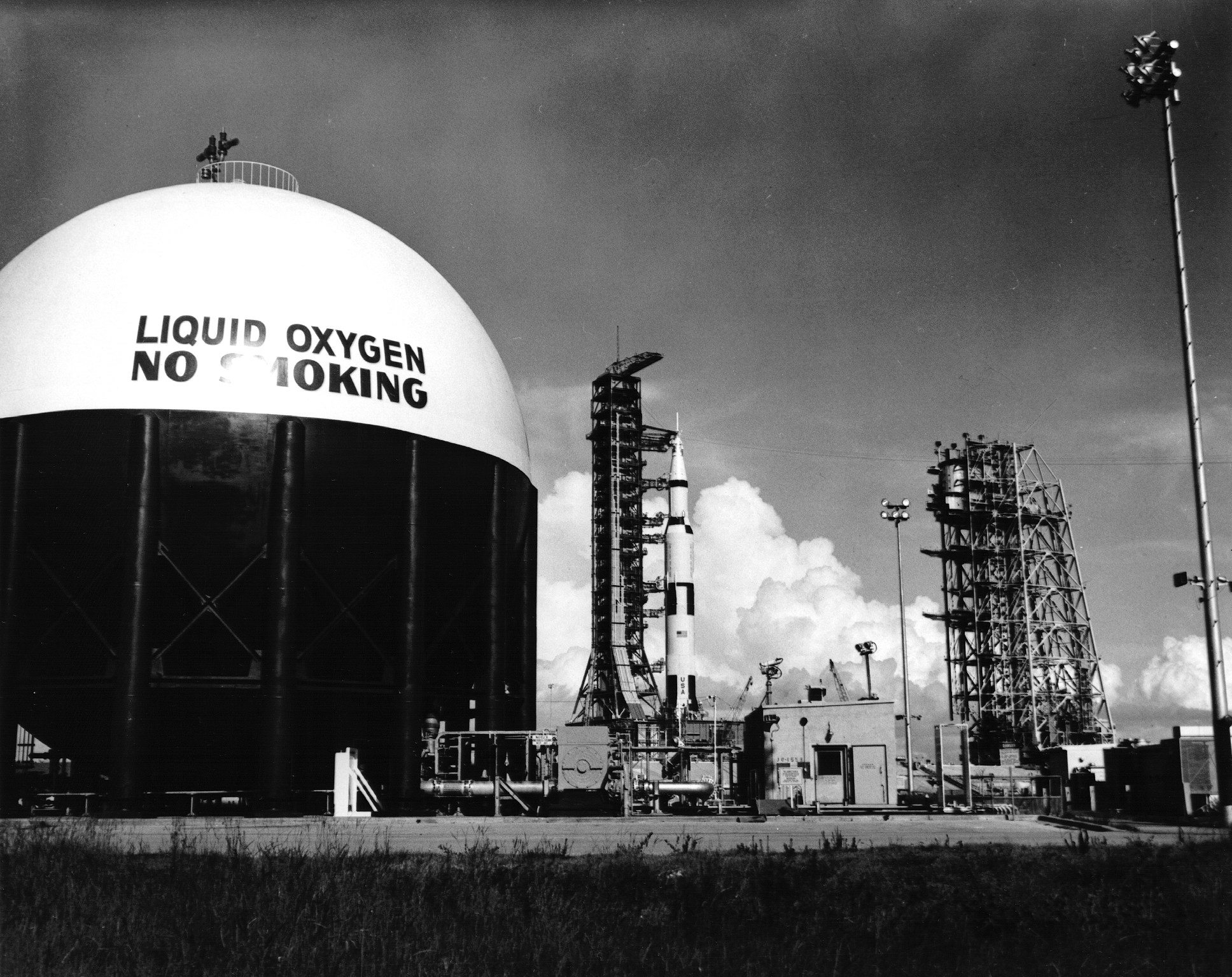 The Mobile Service Structure (MSS) moves down the pad 39A ramp, leaving the Saturn V alone during a Countdown Demonstration Test.